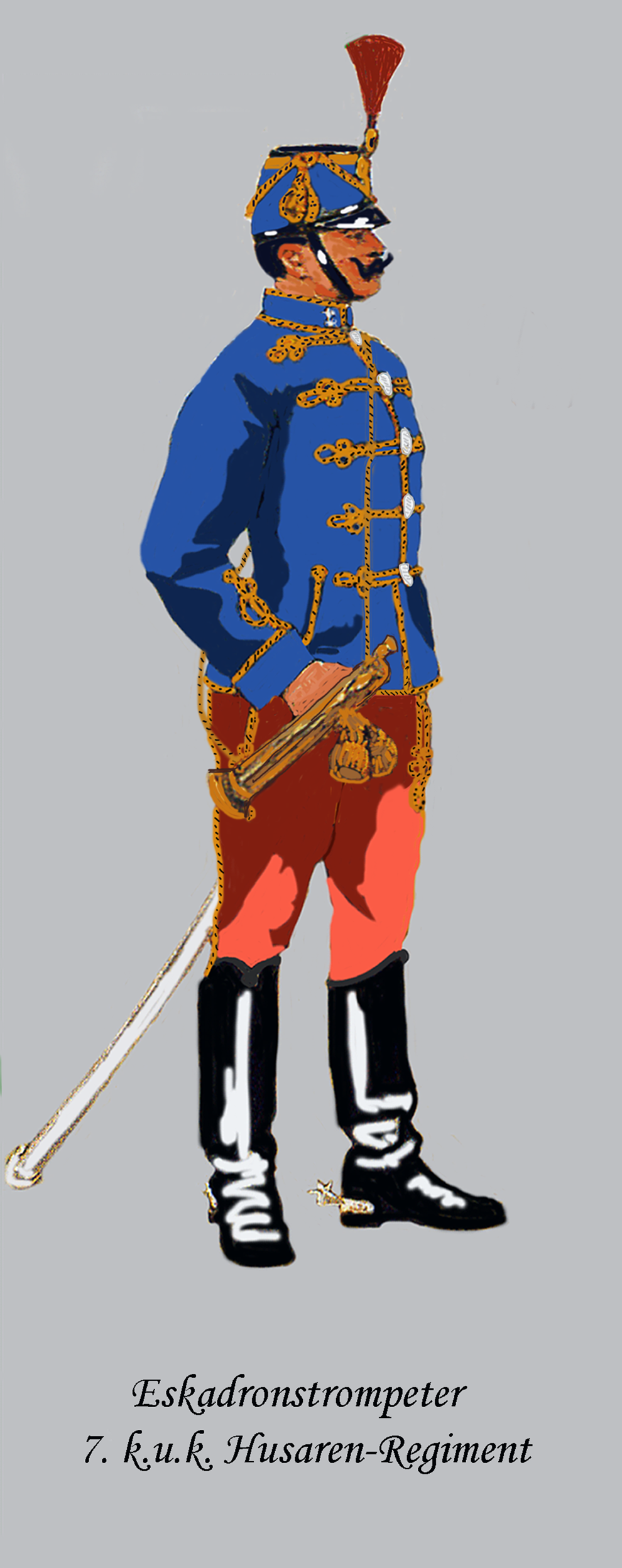 Bugler of the 7th Austria-Hungarian Hussars-Regiment. Service dress. Uniform in use until about 1916